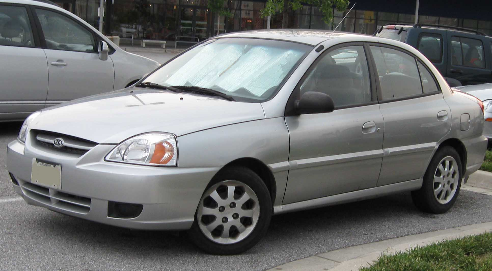 2003-2005 Kia Rio photographed in College Park, Maryland, USA.